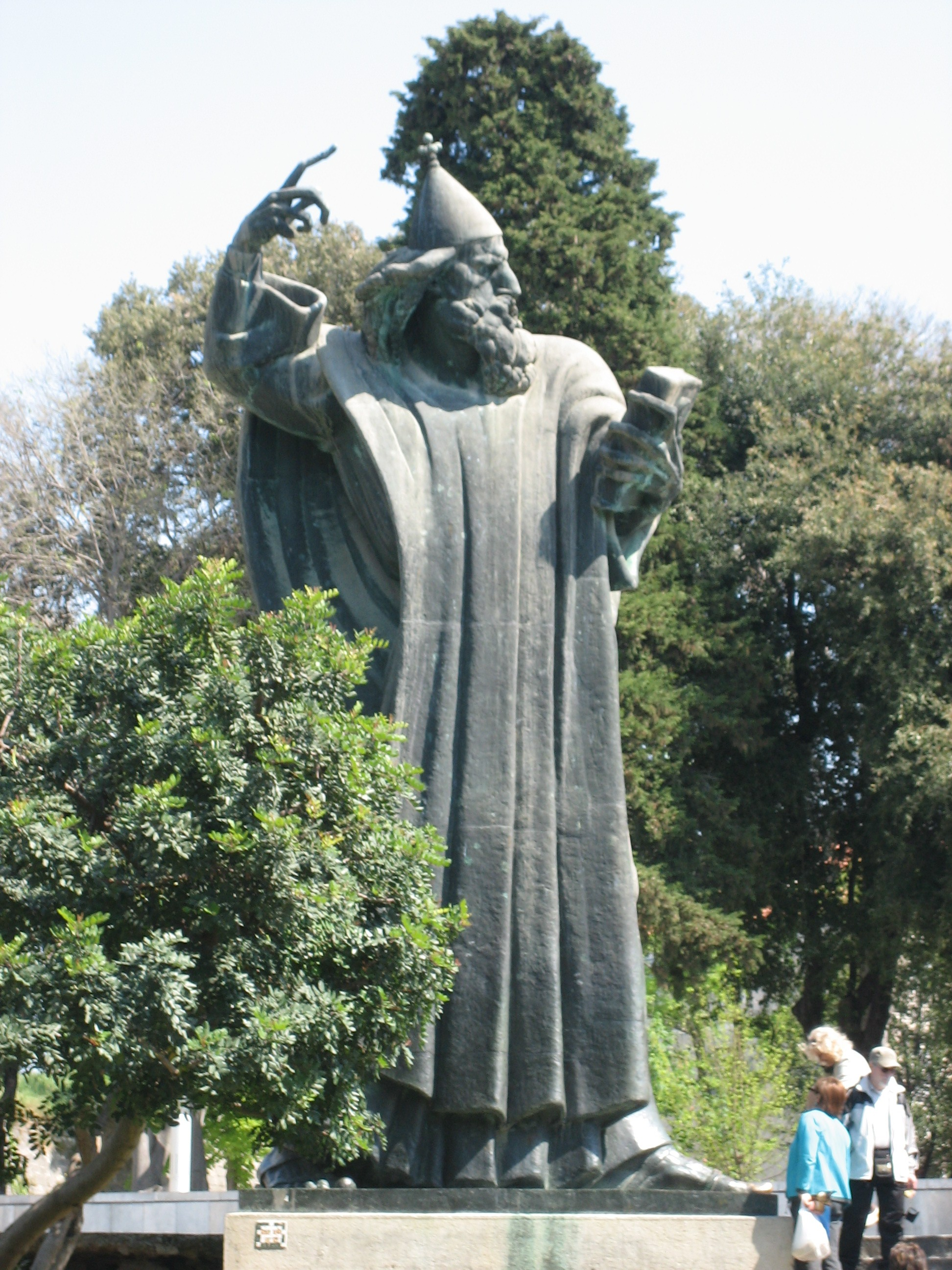 Monument to Gregor of Nin by Ivan Mestrovic in Split